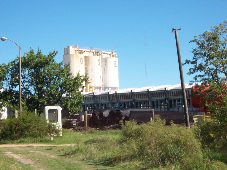 The new water purification plant in Aguas Corrients, Canelones, Uruguay.